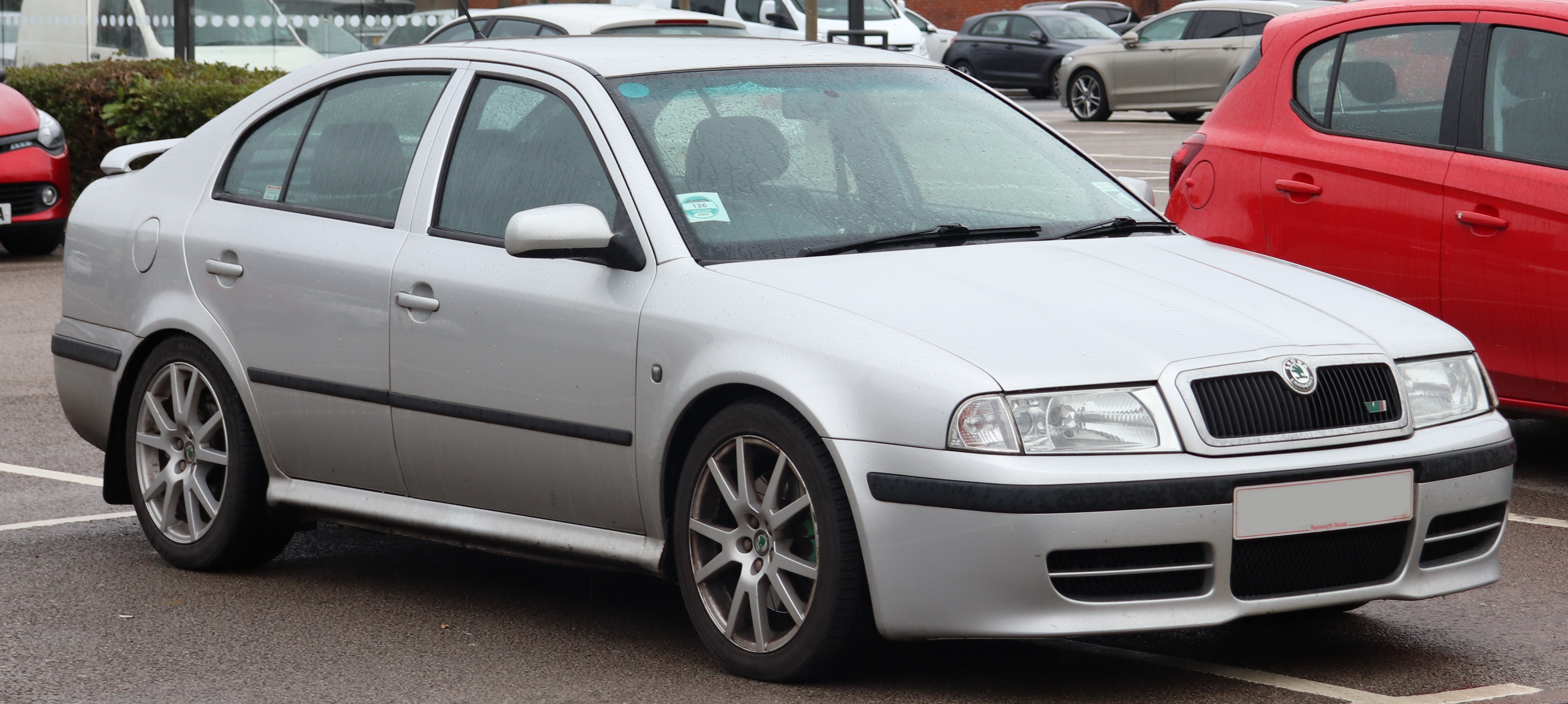 2005 Skoda Octavia VRS 1.8 Front Taken in Warwick